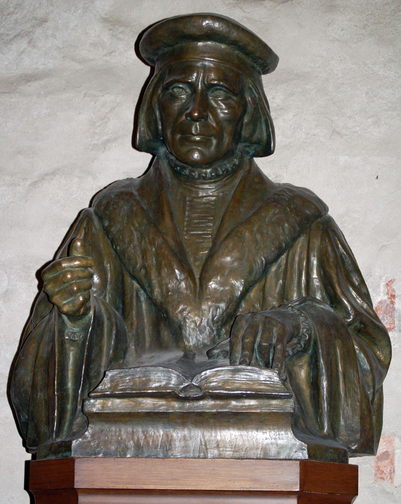 Bronze bust of Mikael Agricola at the Cathedral of Turku, Finland. Sculptor: Emil Wikström.